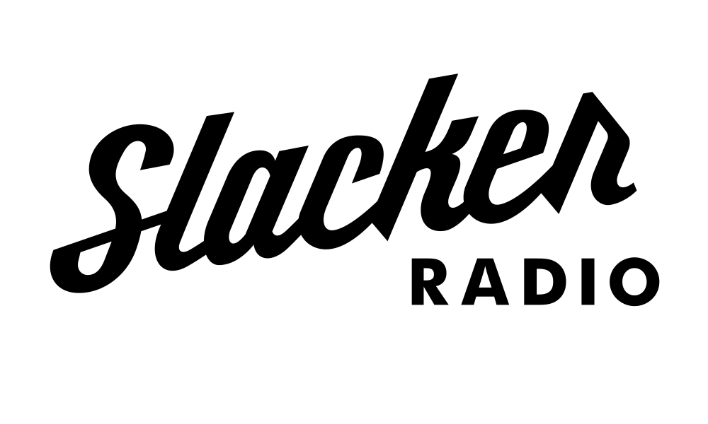 Slacker logo